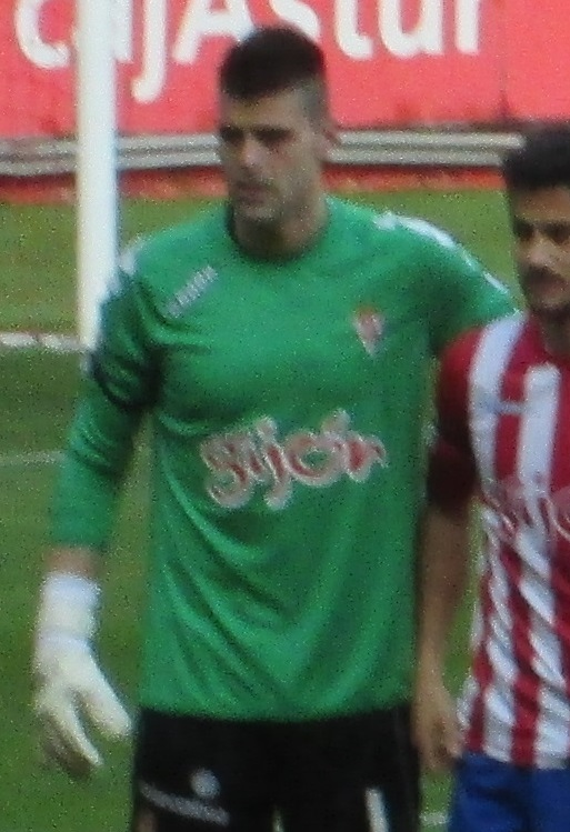 Iván Cuéllar, football player for Sporting de Gijón